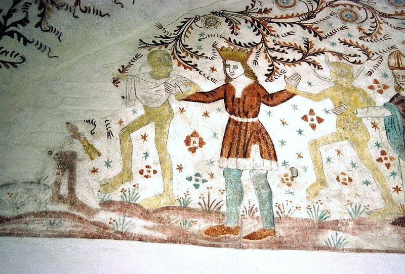 Frescos of the Master of Elmelunde, 14th century. Dance Macabre in Nørre Alslev church.